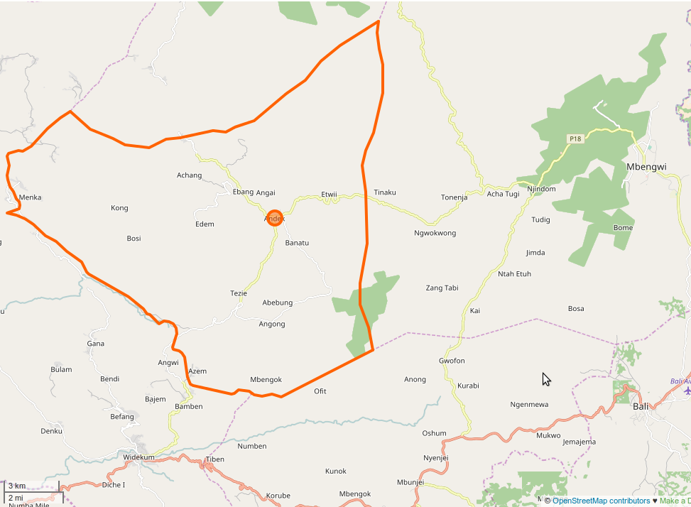 Andek in Cameroon, city boundaries with OS̥M. This map may be incomplete, and may contain errors. Don't rely solely on it for navigation.